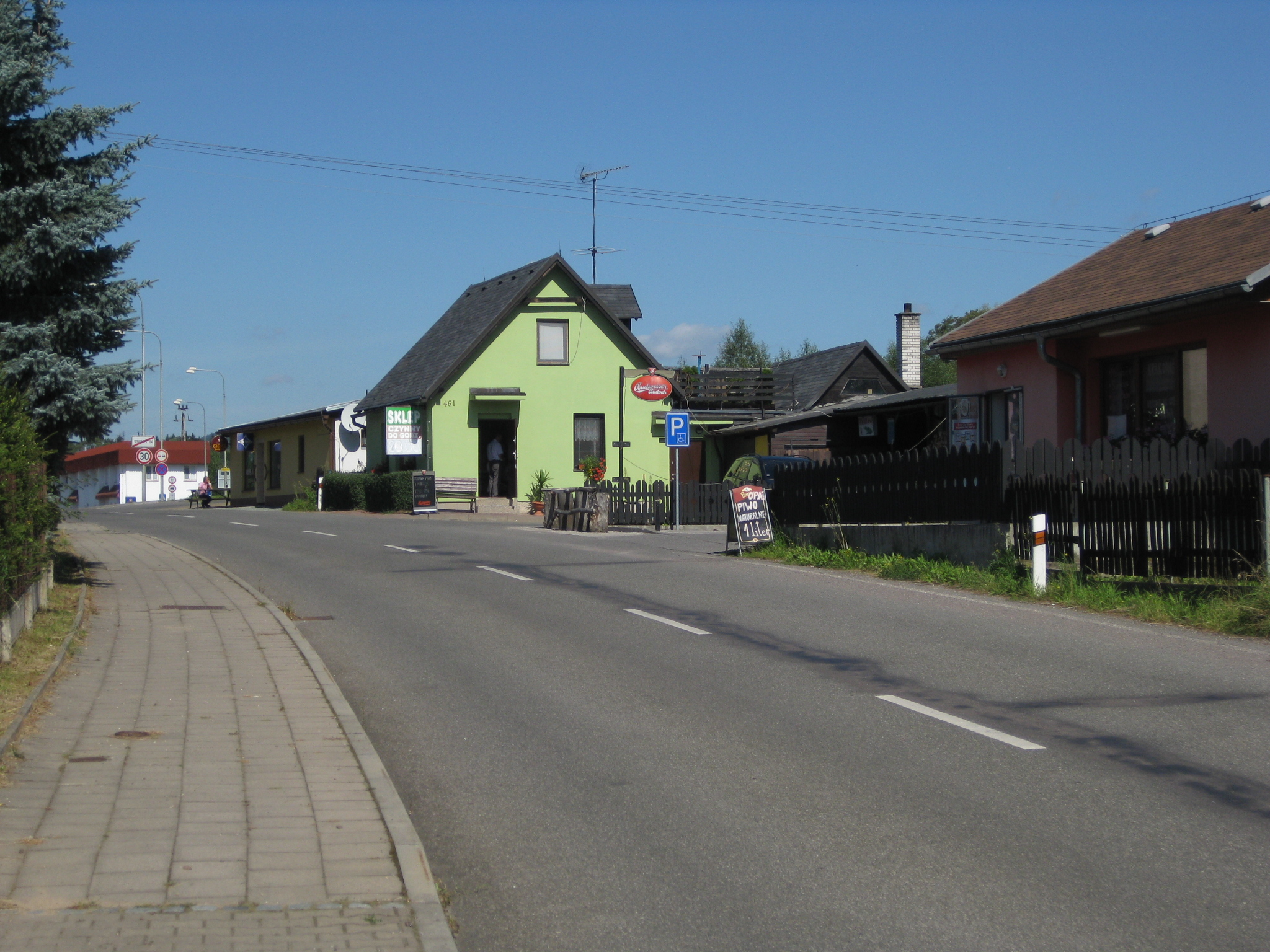 Starostín village in the Czech Republic.